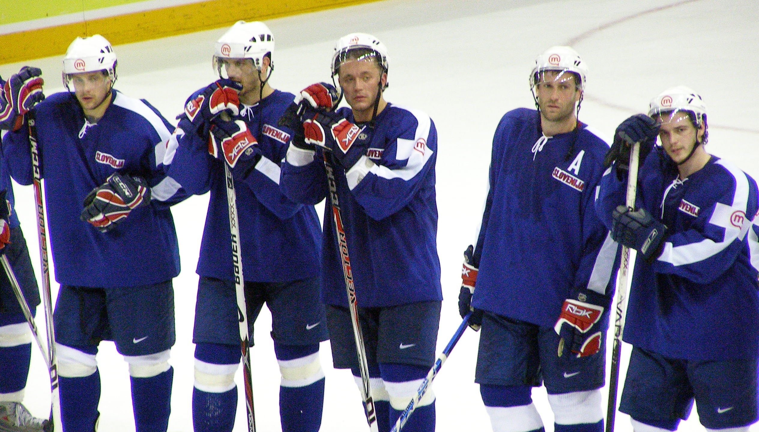 Latvia VS Slovenia (IIHF World Hockey Championship in Halifax NS, May 6 2008)